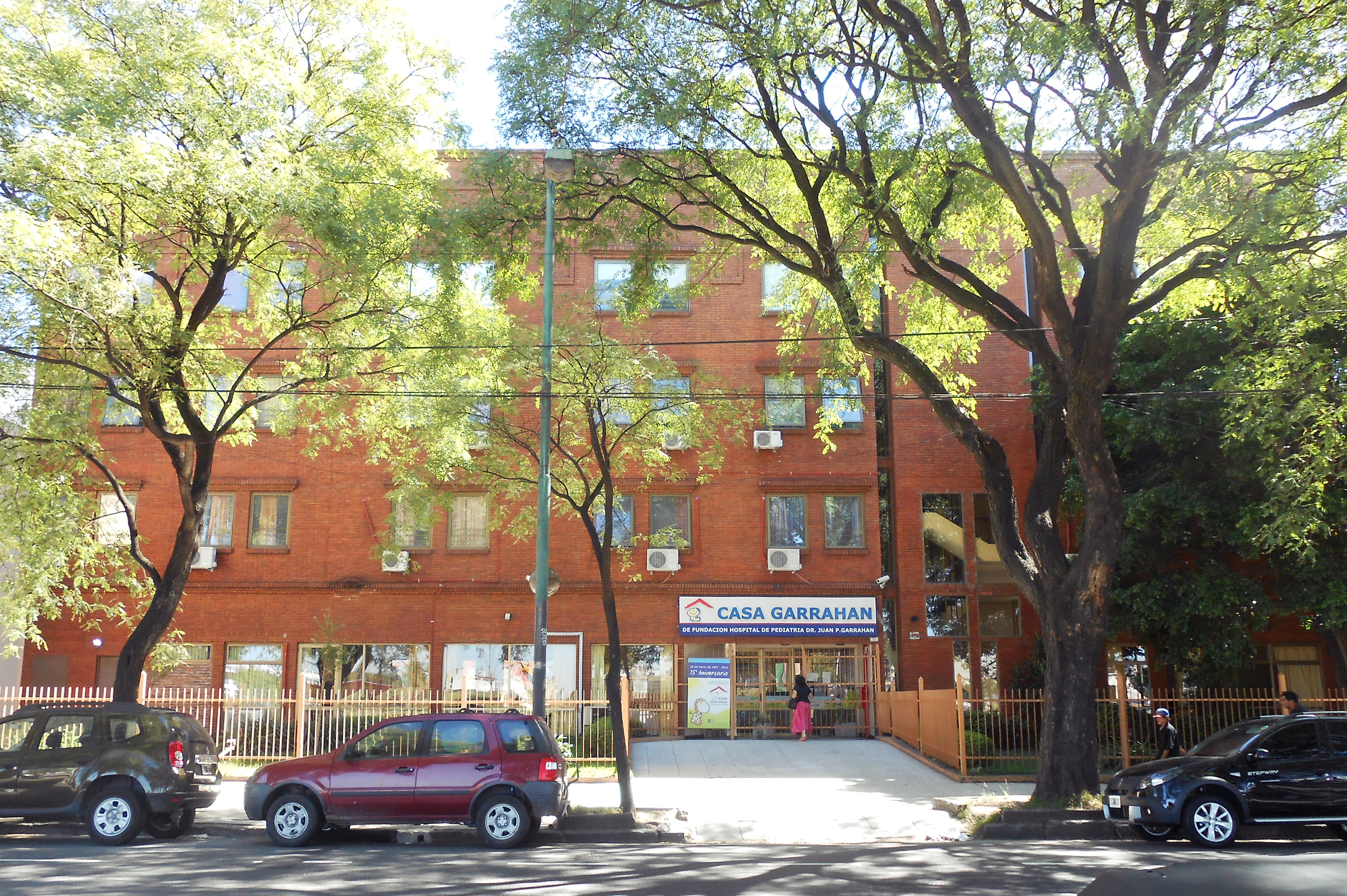 The Garrahan House, a guest house for long-distance relatives of patients at the Garrahan Children's Hospital - the largest in Argentina.